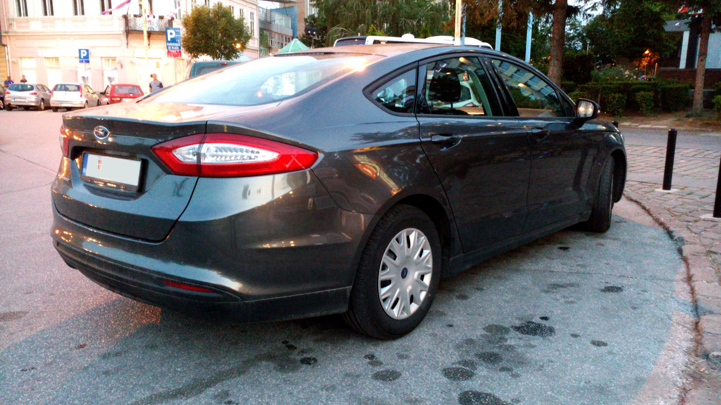 2017 Ford Mondeo 4-door Trend rear view. Pictured in Kragujevac, Serbia.